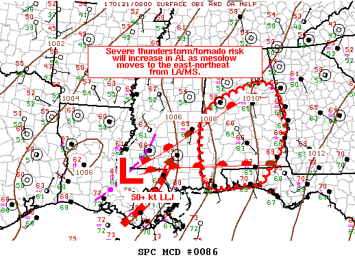 Surface analysis of a mesoscale low over the US Gulf Coast during the pre-dawn hours of January 21, 2017.